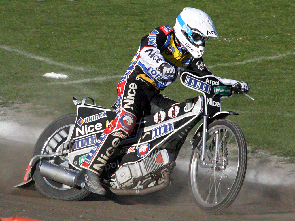 Polish speedway rider Adrian Miedziński during match between Polonia Bydgoszcz and Unibax Toruń (April 19, 2009)